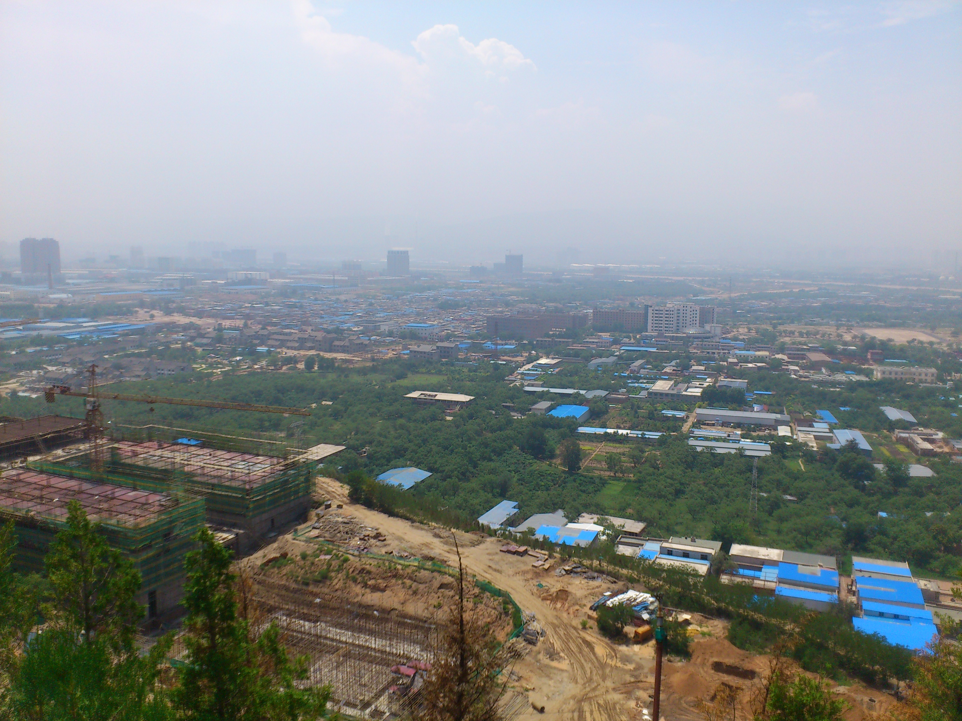 Anning District skyline from Renshoushan